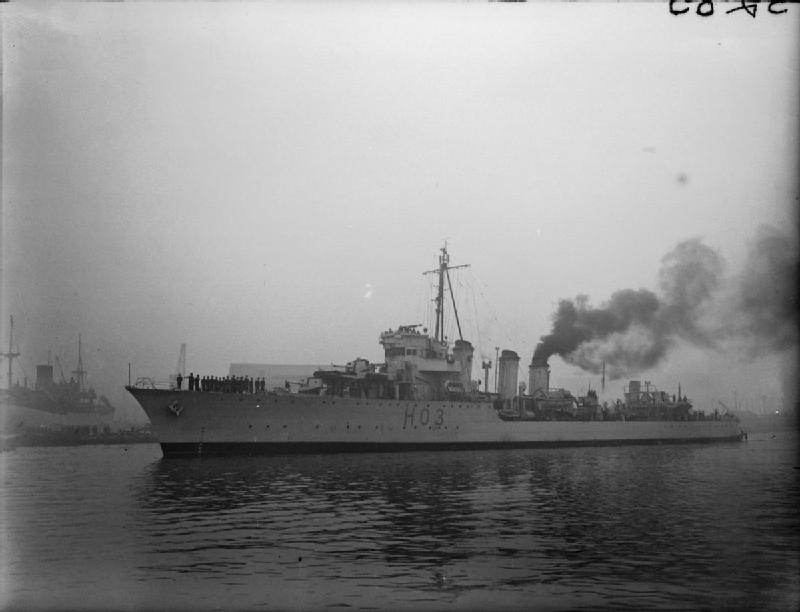 HMS Mistral Underway.